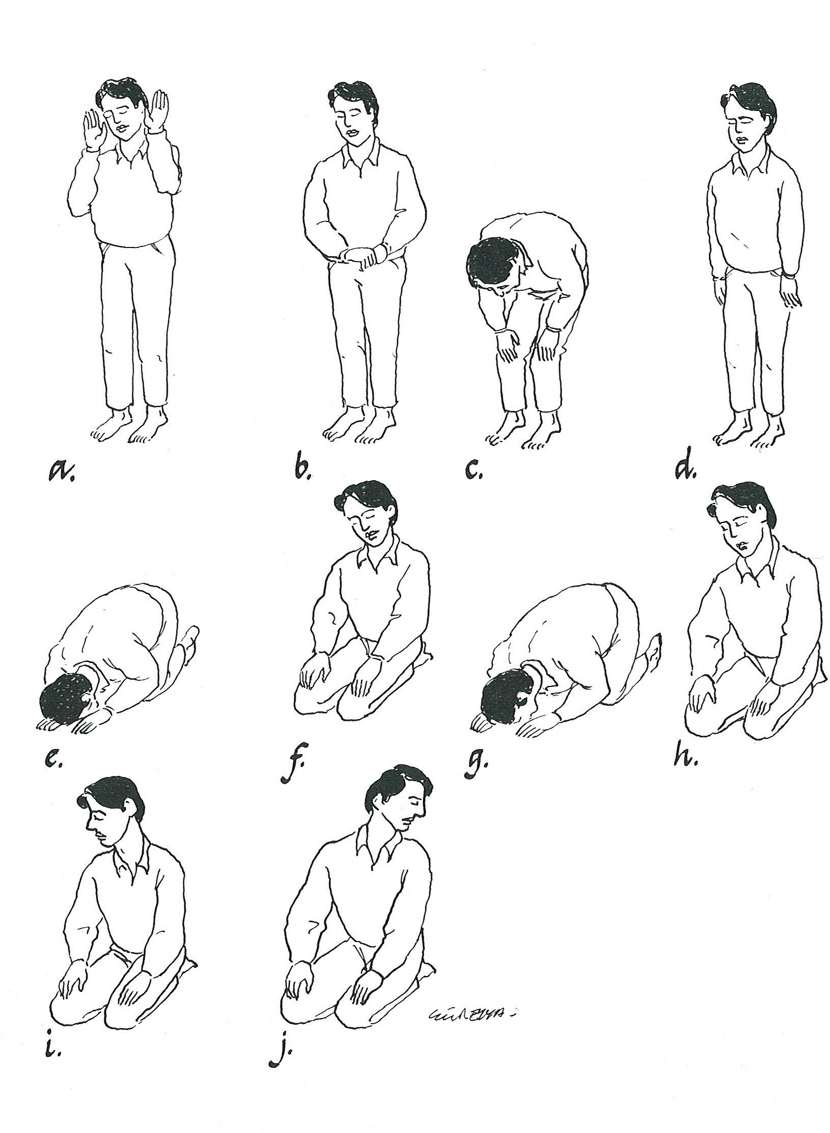 The Raka of the islamic prayer Salat: a: Lifting my hands; b: my right hand around my left wrist; c: bending in my hips, my hands on my knees; d: standing right, to e: fall down on my knees, forehead and hands to the ground; f: lifting my upper body, sitting on my heels, with hands on knees; g: bowing down again, forehead and hands to the ground; h: upright to a sitting position. Raka 2: turning my head to the right and left to greet the angles and my fellows in faith